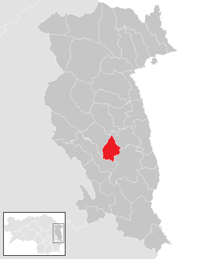 district Hartberg-Fürstenfeld